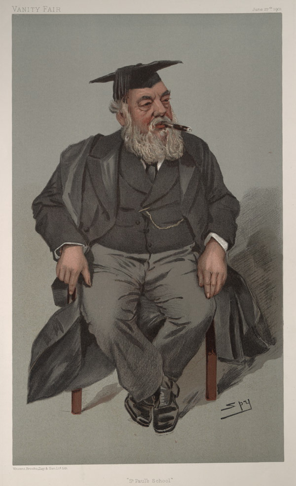 Men of the Day No.813: Caricature of The High Master of St Paul's School. Frederick William Walker (1830-1910). High master of St Paul's School (1877-1905). Previously Head of Manchester Grammar School [1]. Caption reads: "The High Master of St Paul's School"